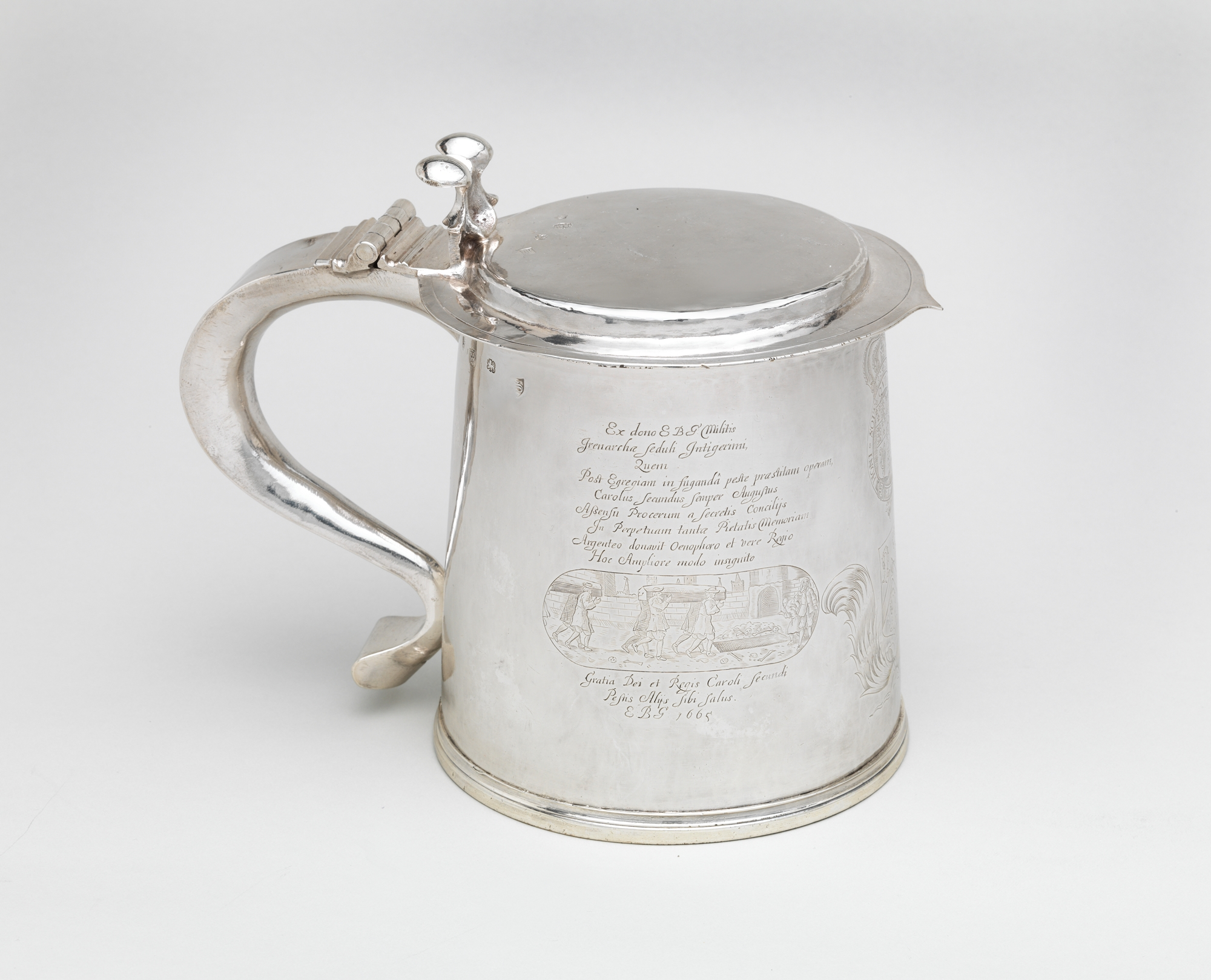 British, London; Tankard; Metalwork-Silver